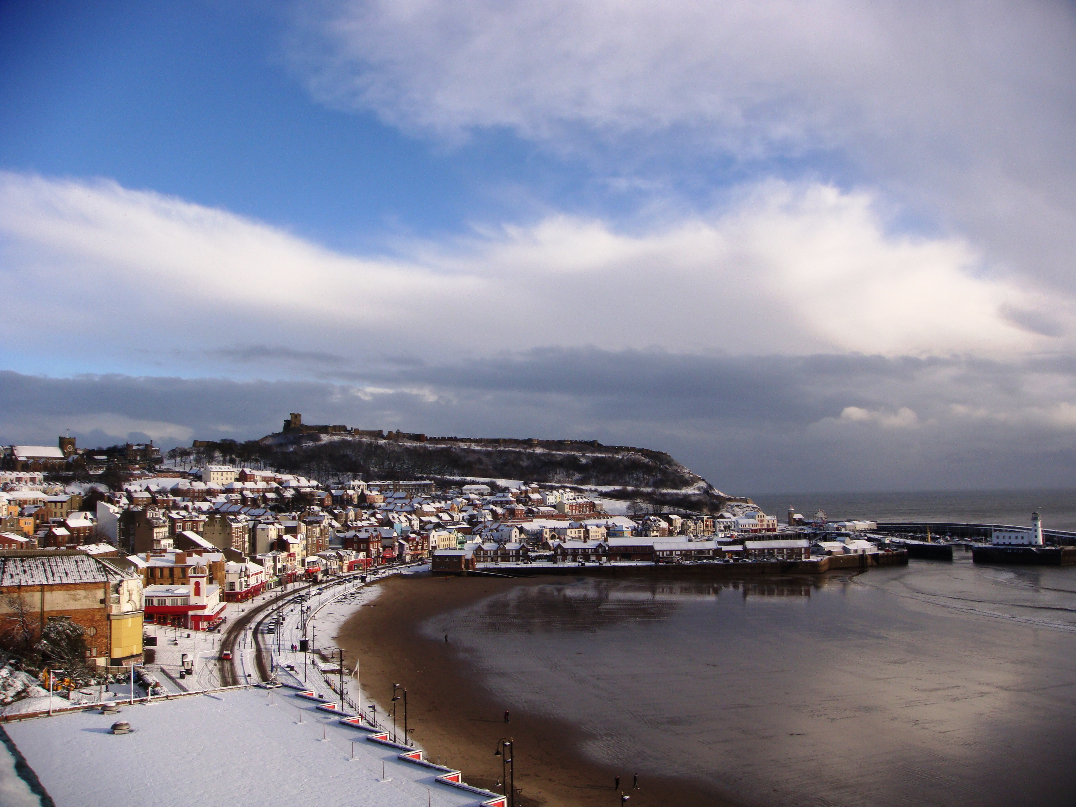 Scarborough in snow